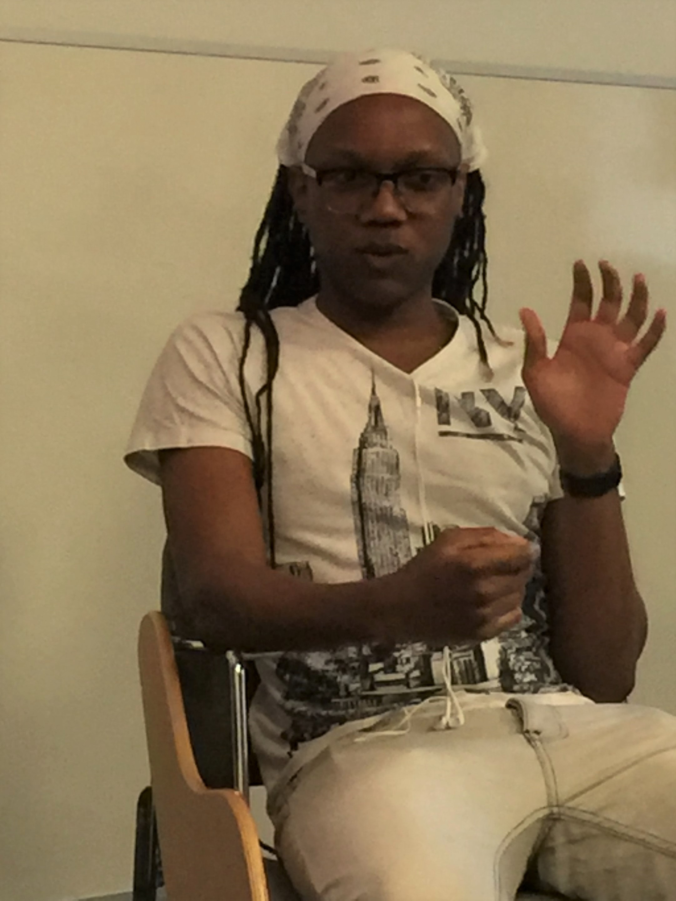 Writer Tendai Huchu in Edinburgh, 2019